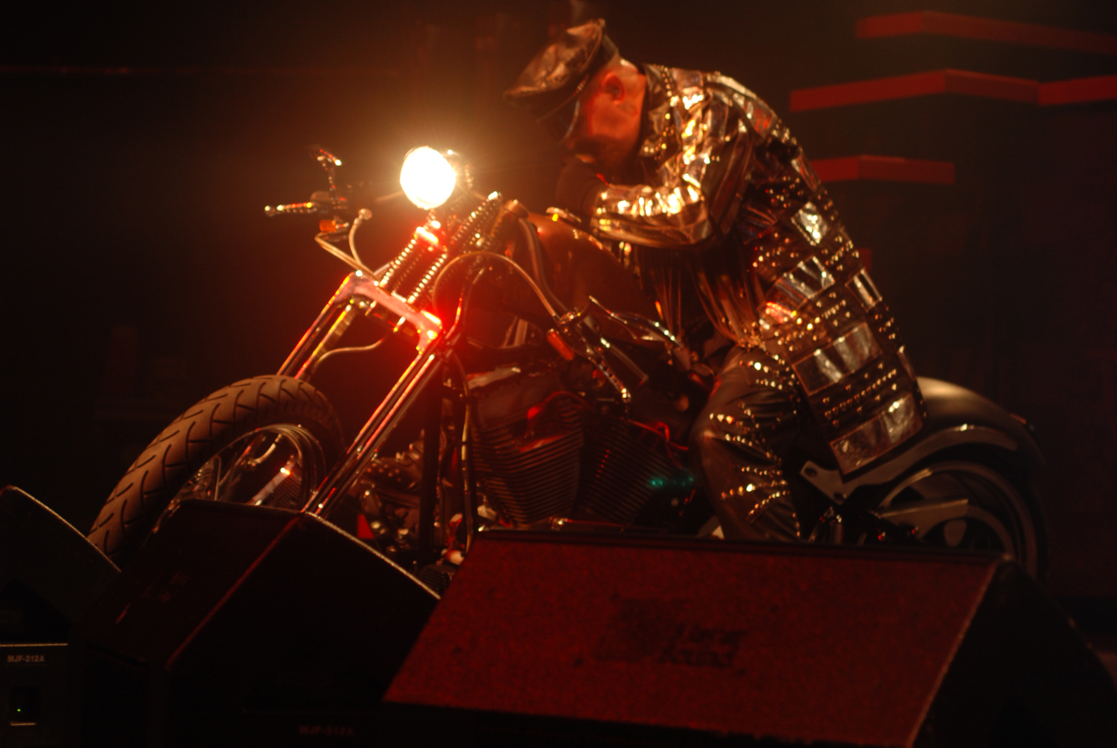 Rob Halford during a Judas Priest's concert